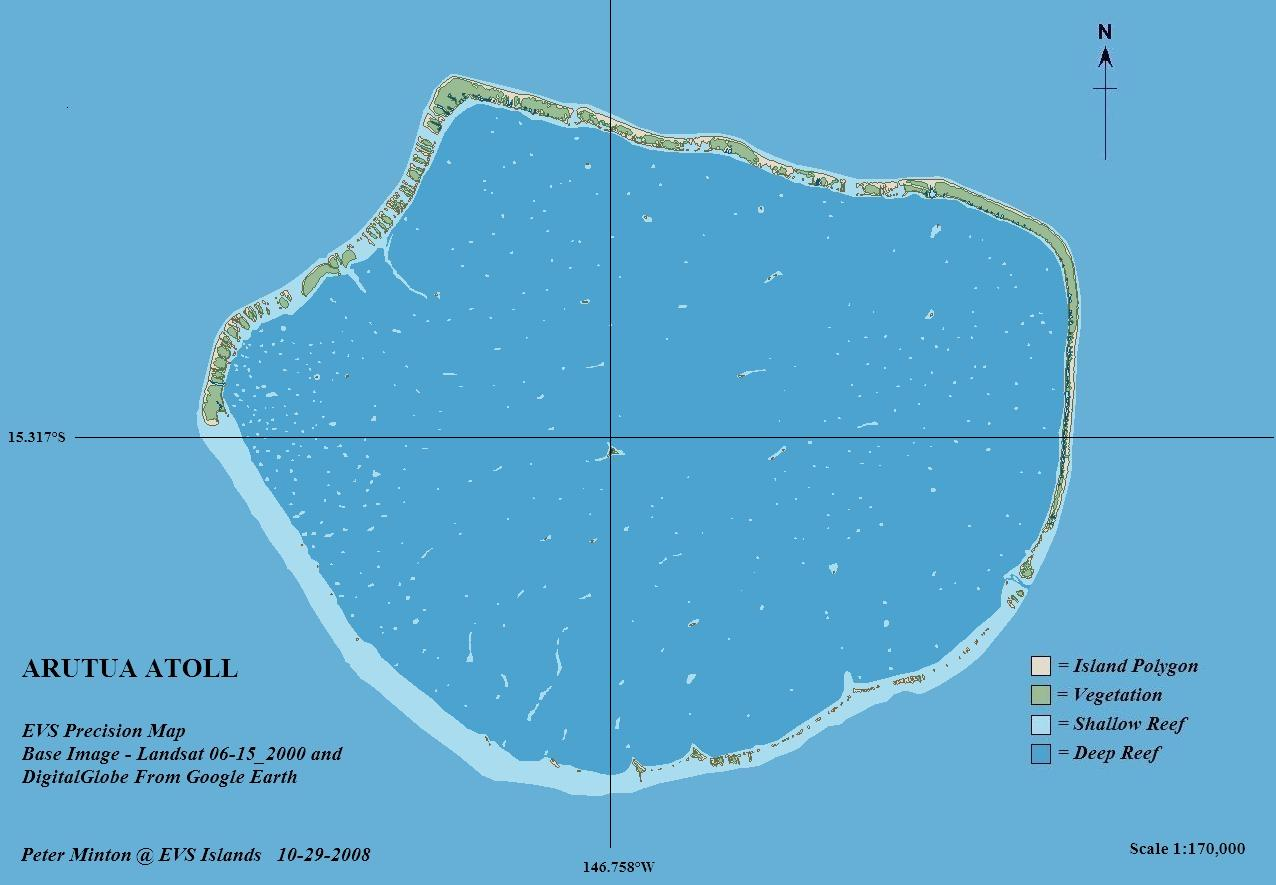 Arutua Atoll FP - EVS Precison Map (1:170,000)